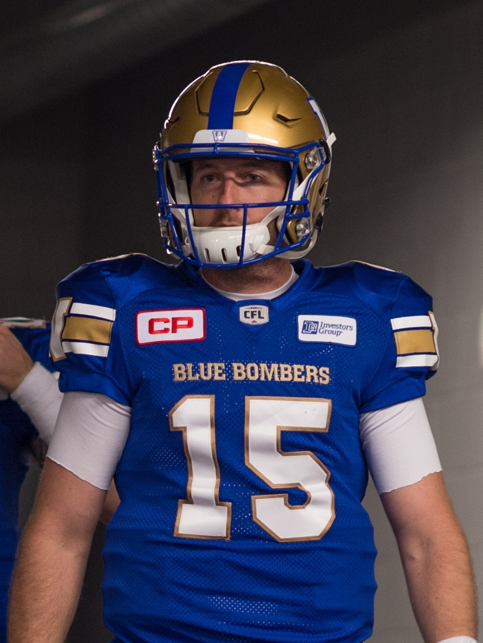 Drew Willy (5), Matt Nichols (15), Bryan Bennett (18) and Dominique Davis (6) of the Winnipeg Blue Bombers before the pre-season game against the Ottawa REDBLACKS at TD Place in Ottawa, ON on Monday June 13, 2016. (Photo: Johany Jutras)